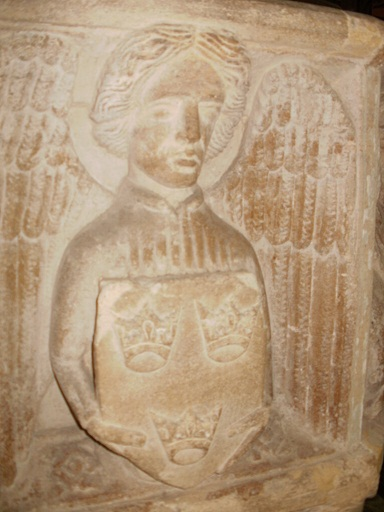 Carving of an Angel holding a Three Crowns emblem on a baptismal font (c.1400) in St. John the Baptist parish church, Saxmundham, Suffolk. These are the attributed arms of King Edmund the Martyr (alias St Edmund, Edmund of East Anglia), died 20 November 869), king of East Anglia from about 855-869: Azure, three ducal crowns or. Attributed arms of King Edmund the Martyr (alias St Edmund, Edmund of East Anglia), King of East Anglia from about 855-869: Azure, three ducal crowns or[1]